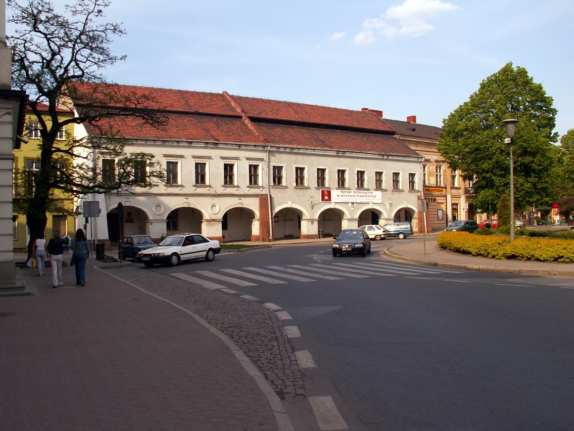 Tenement-house on main square in Kielce (Poland) 359 z 23.06.1967.